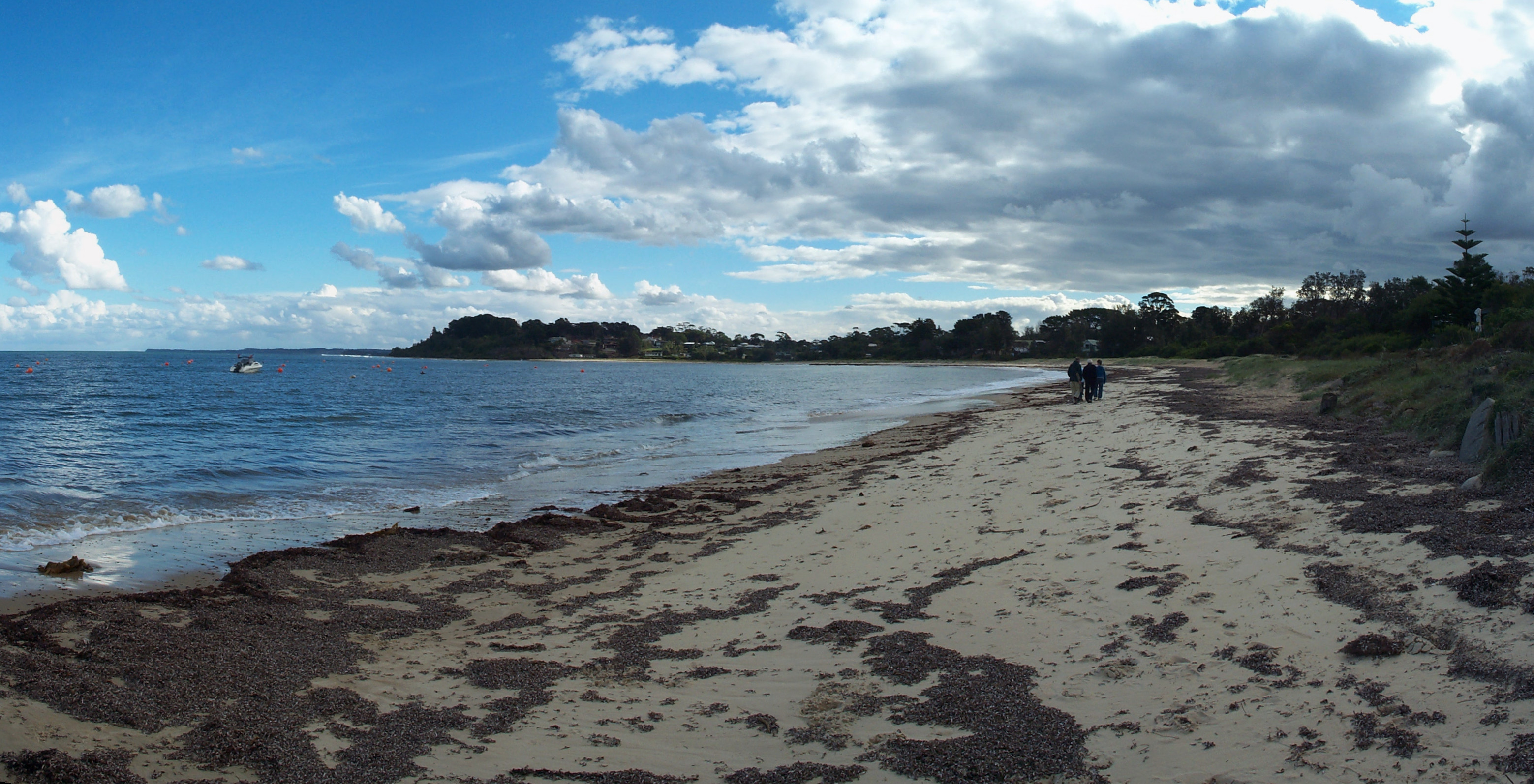 Balnarring Beach, Victoria panorama